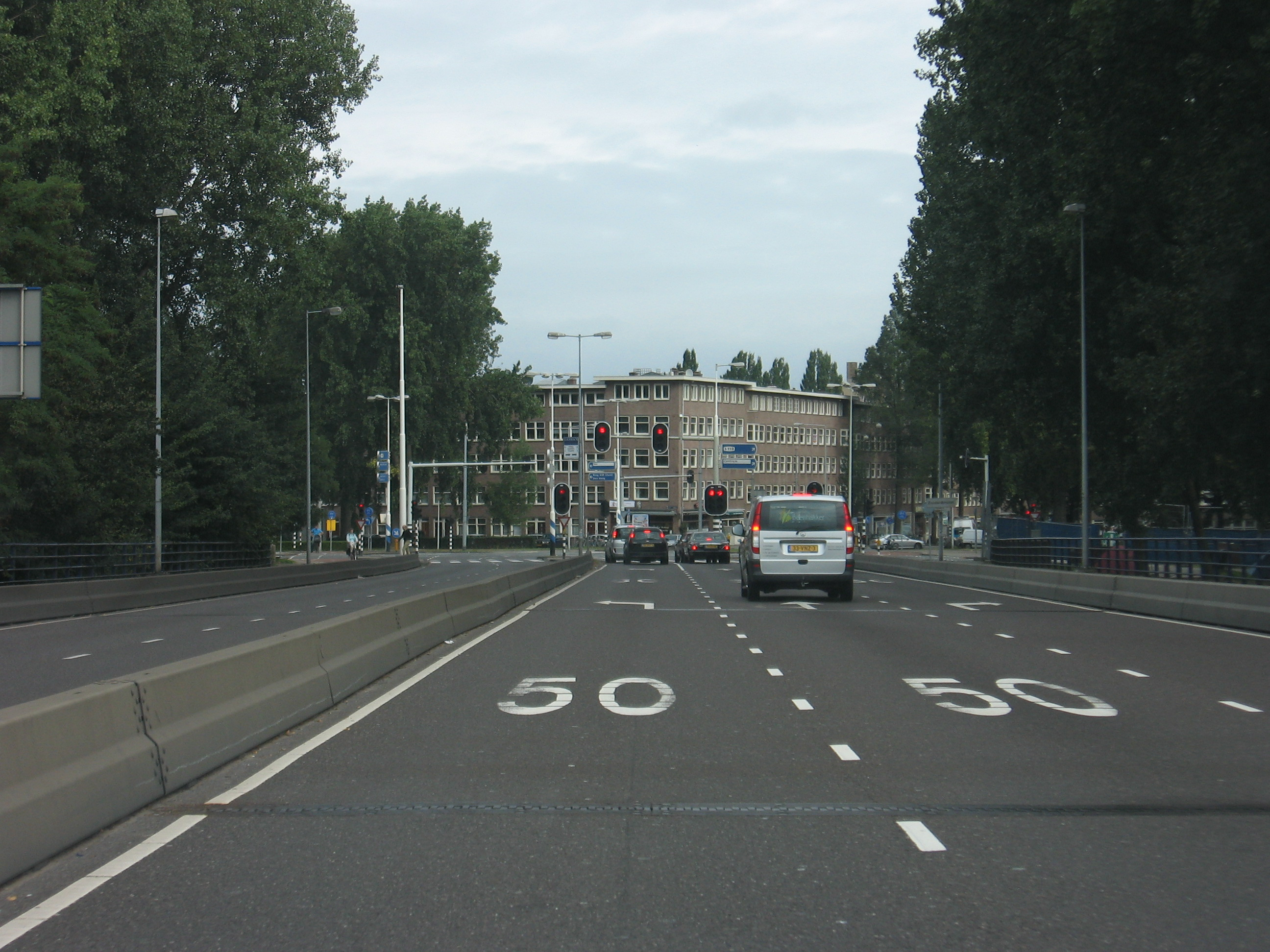 Nieuwe Utrechtseweg